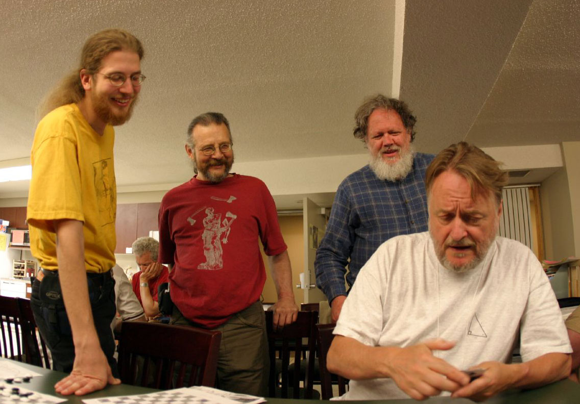 Erik Demaine (left) with Martin Demaine (center) and Bill Spight (background) watch John Conway (foreground) do a card trick at Workshop on Combinatorial Game Theory at Banff International Research Station, June, 2005Erik Demaine, Martin Demaine, Bill Spight, John Conway